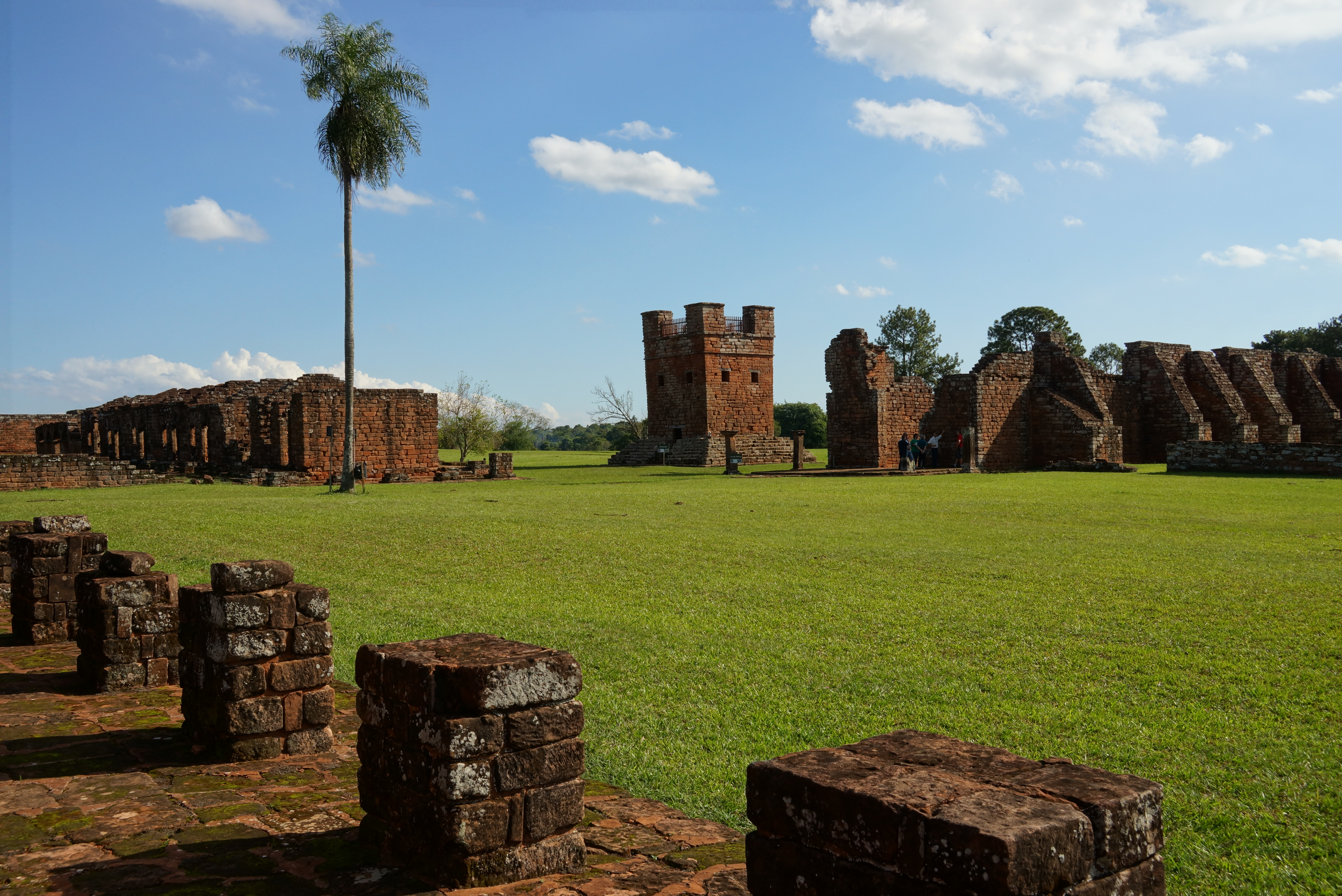 General view of the clock tower of the Jesuit Reduction of Trinidad, Southern Paraguay